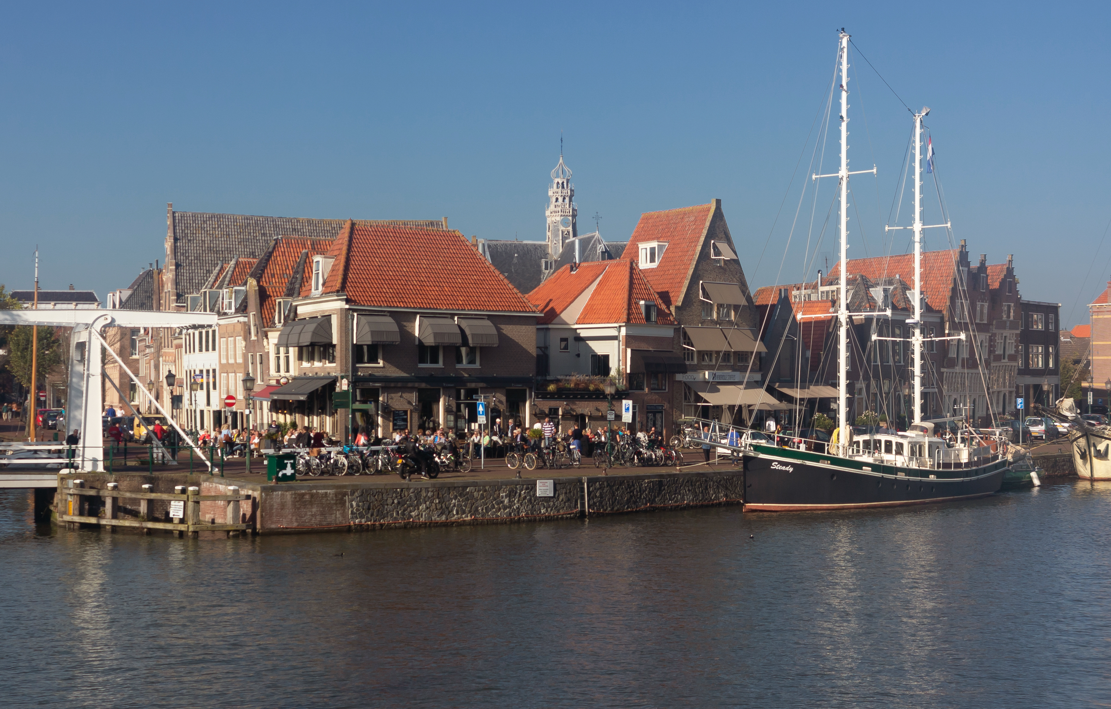 Hoorn, view to the Oude Doelenkade with drawbridge (de Hoge Brug), churchtower (de Sint Antoniuskerk) and sailing ship the Steady